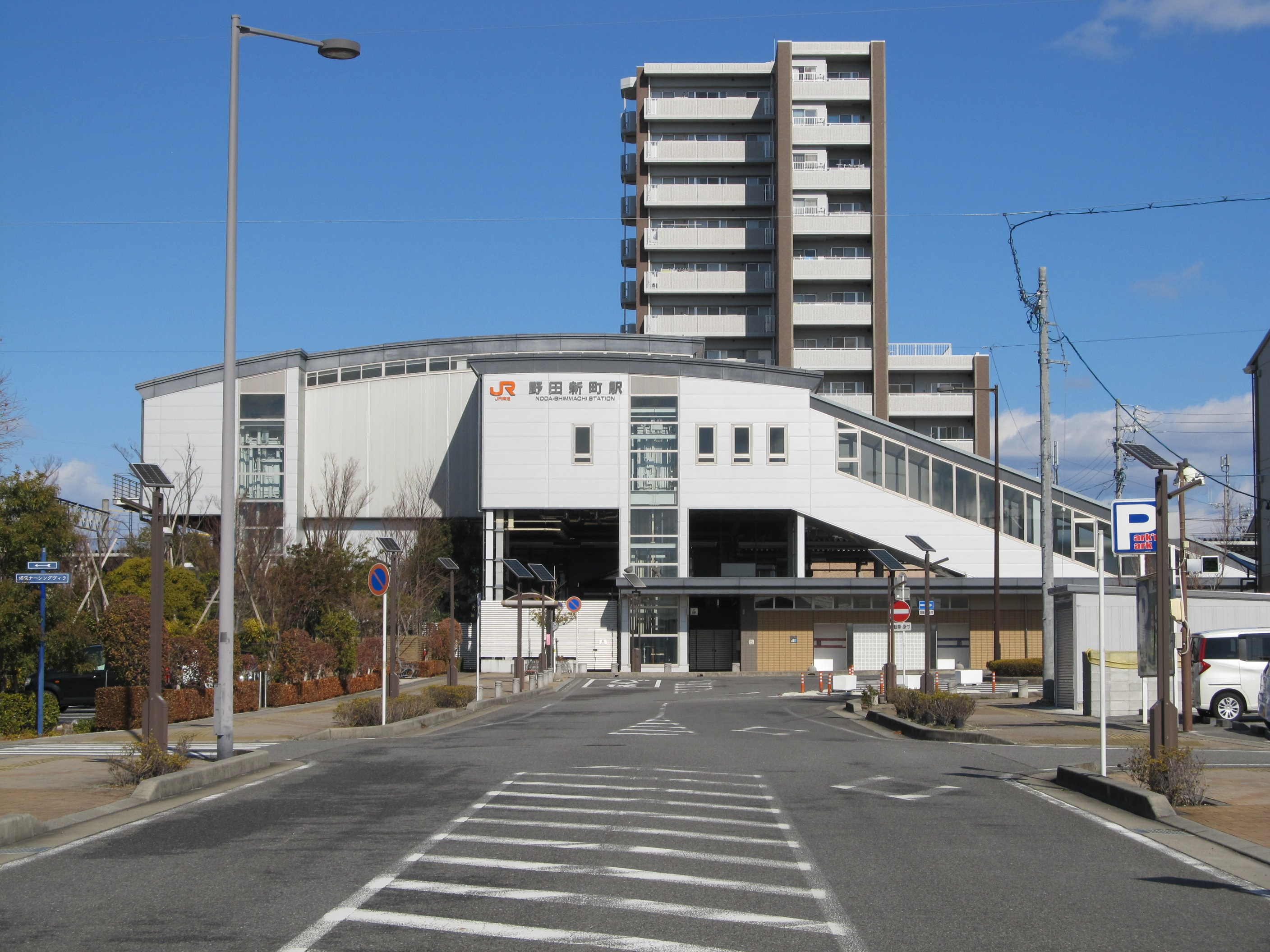 Central Japan Railway Tōkaidō Main Line Noda-shimmachi Station South Gate